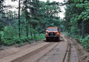 An orange dump truck with grader works on the gravel surface of Alger County Road H-58